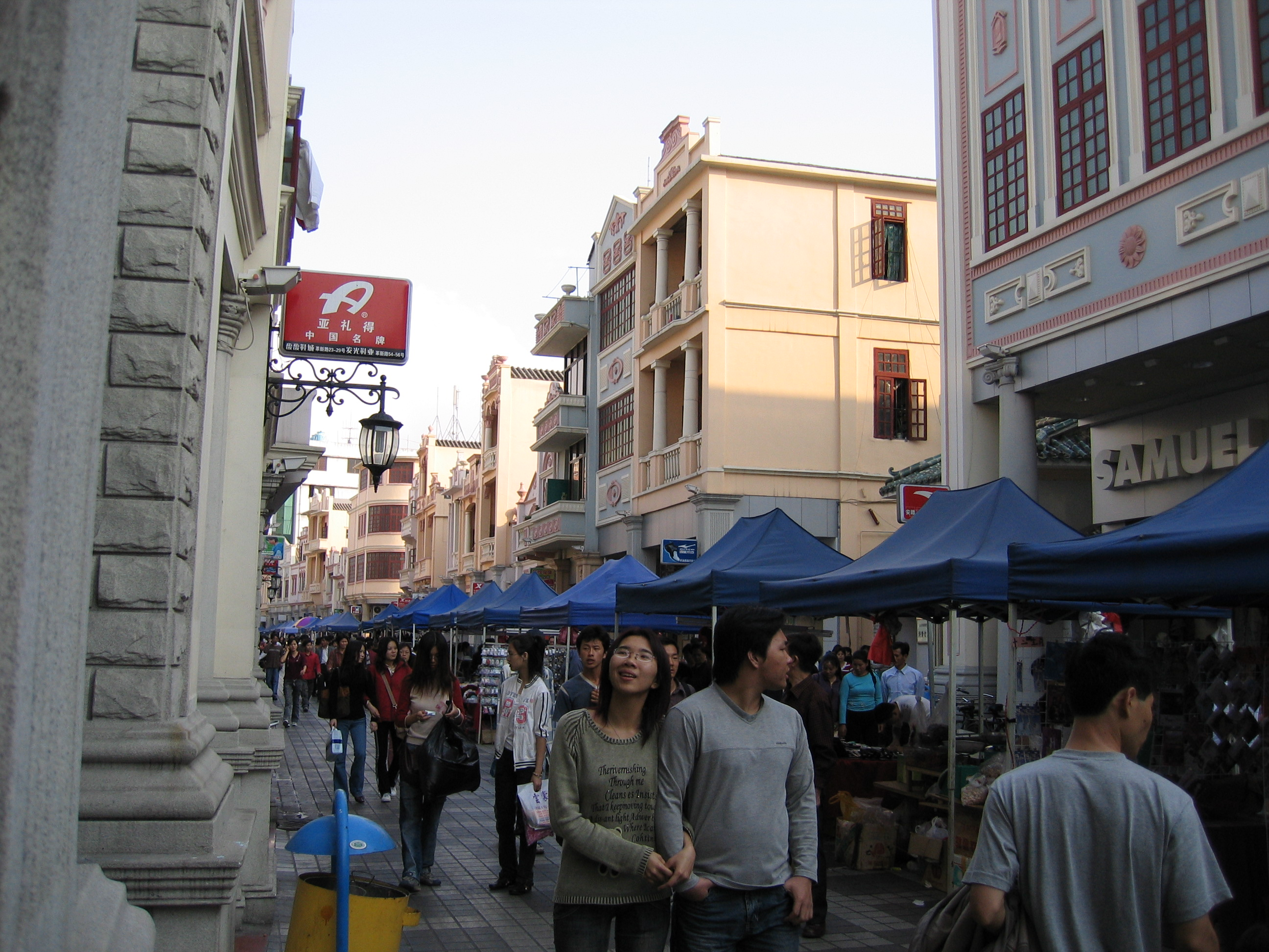 Taicheng Township - Pedestrian Mall in Taicheng Township, Taishan City, Guangdong Province, China